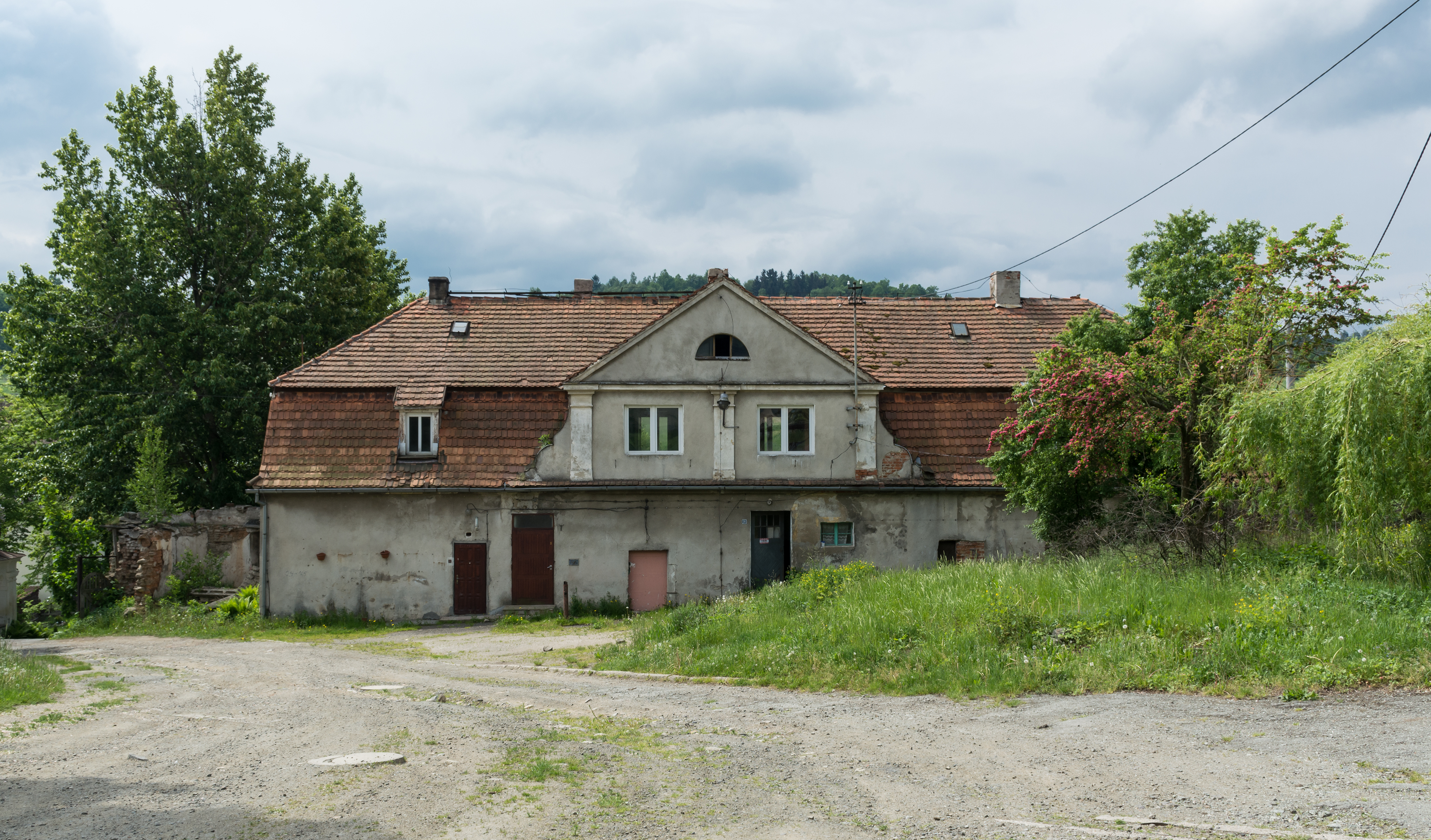 Manor in Jaszkowa Górna, outbuilding